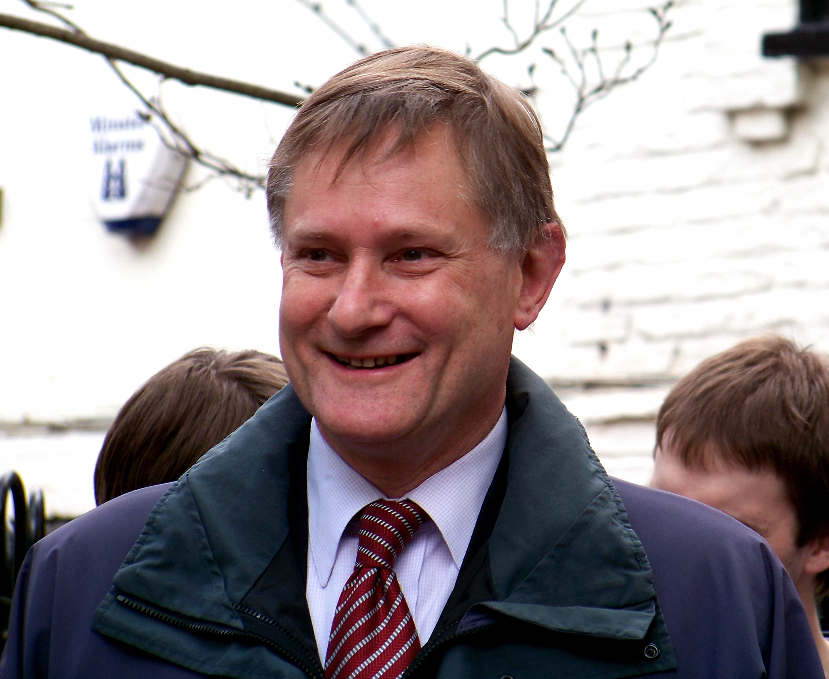 Hugh Bayley British Labour politician and Member of Parliament for York 1992 onwards.